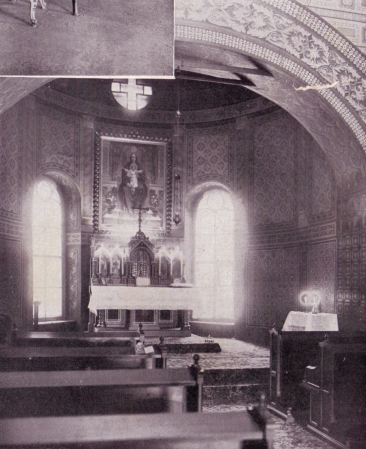 Chapel in Austrian Embassy in St Petersburg // «Stolitsa i Usad'ba» Magazine, 1914, №?, «Austrian Embassy in St Petersburg» article.